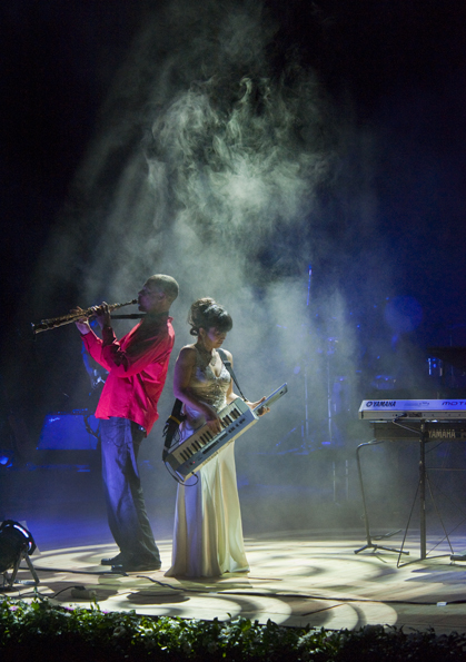 Keiko Matsui in Heydar Aliyev Palace. Baku Jazz Festival 2010